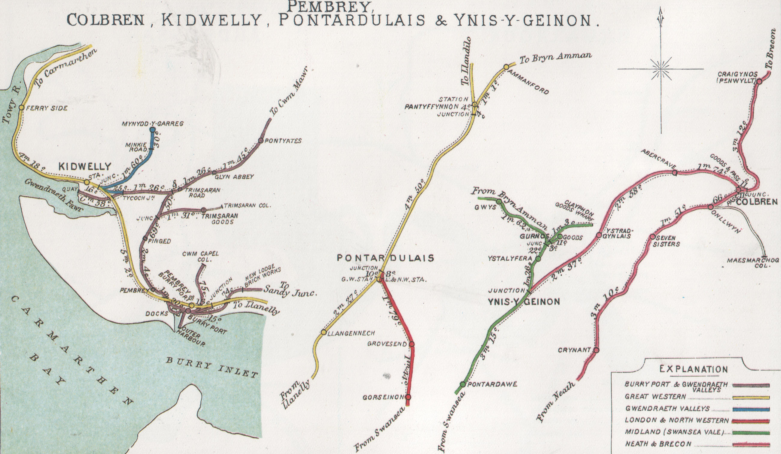 Railway Junctions in Pembrey, Colbren, Kidwelly, Pontardulais & Ynis-Y-Geinon pre grouping